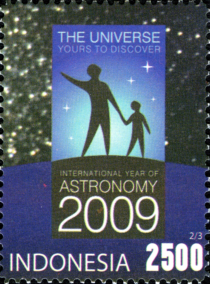 Stamps of Indonesia